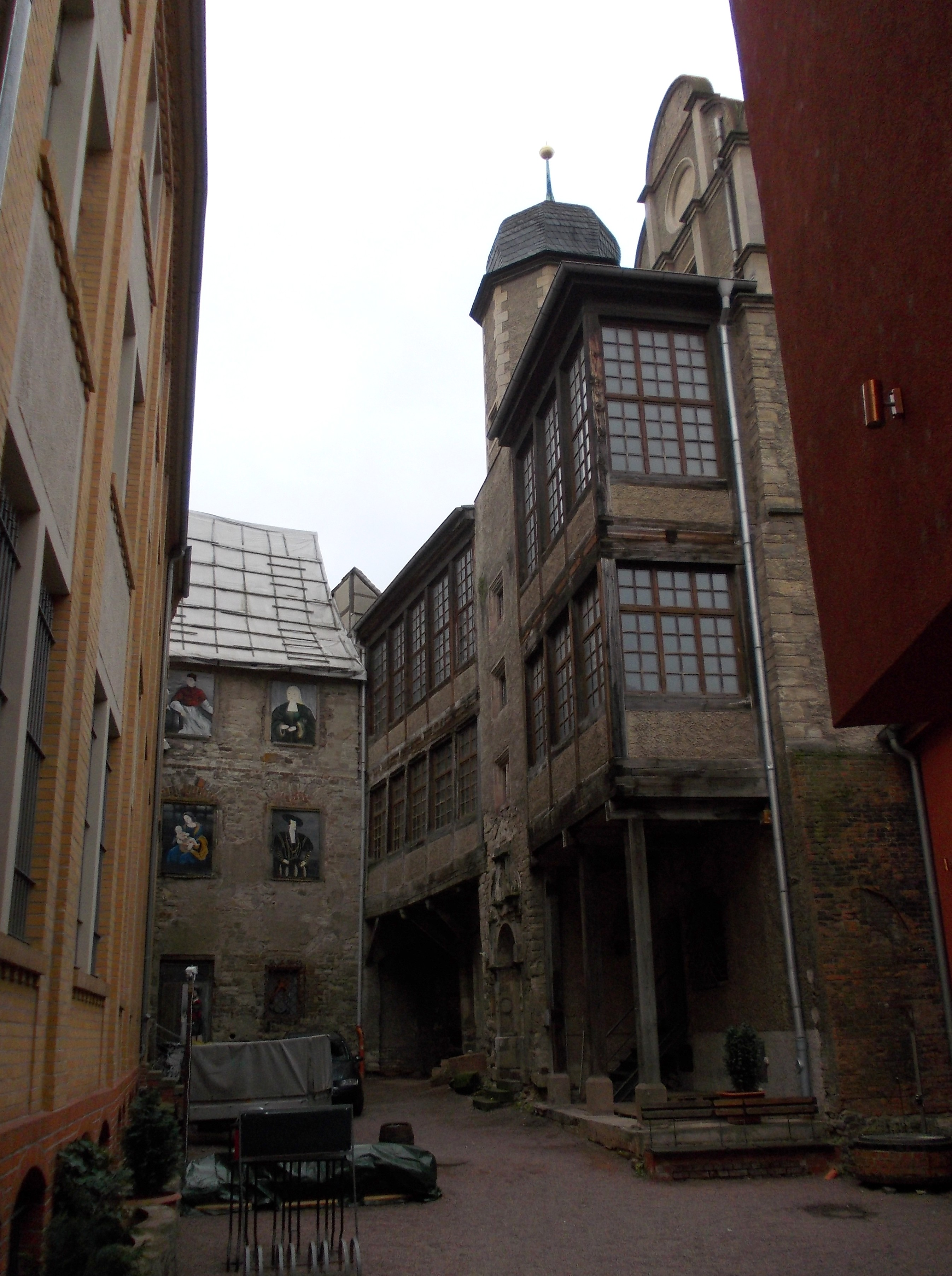 Kühler Brunnen Palace in Halle/Saale (Saxony-Anhalt), a Renaissance residential and trade building